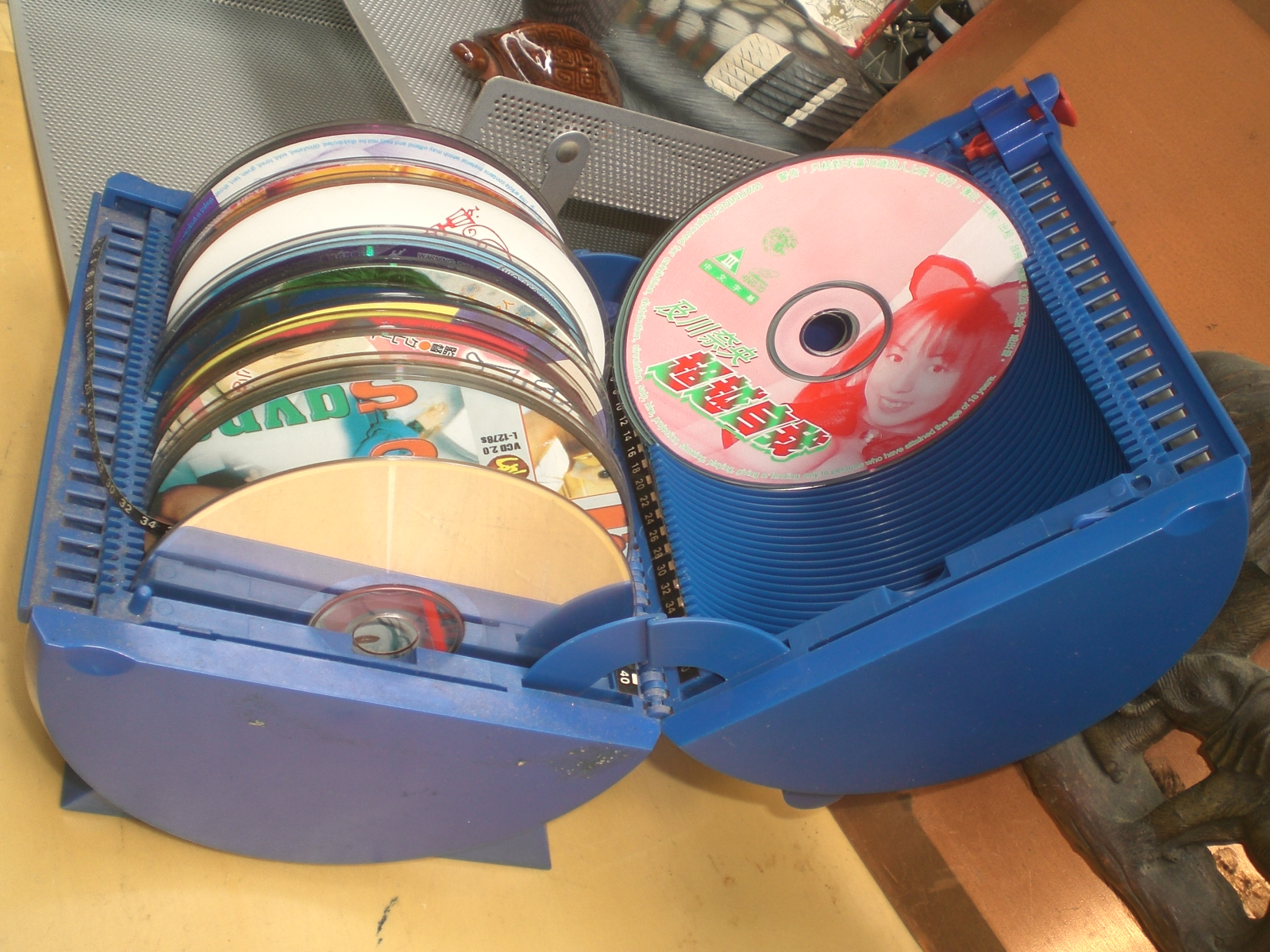 近摩羅上街, Cat Street, Hong Kong. 上環東街 二手市場